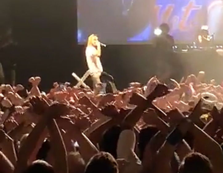 From the concert with 6ix9ine in Oslo.